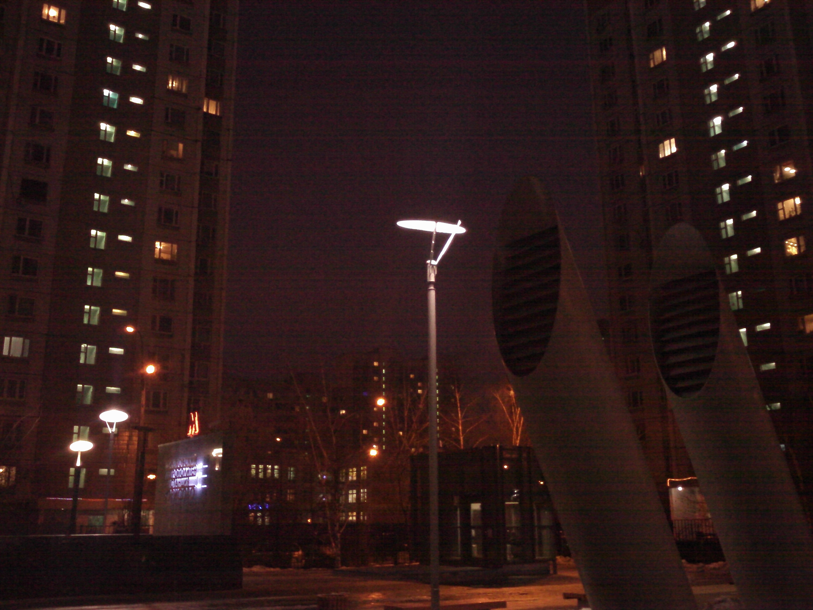 December 23, 2013; 9:06 am. Moscow, Brateyevo District. Night sky due to using "summer time"/DST (UTC+4) in winter, while the longitude of this place is UTC+2:31.